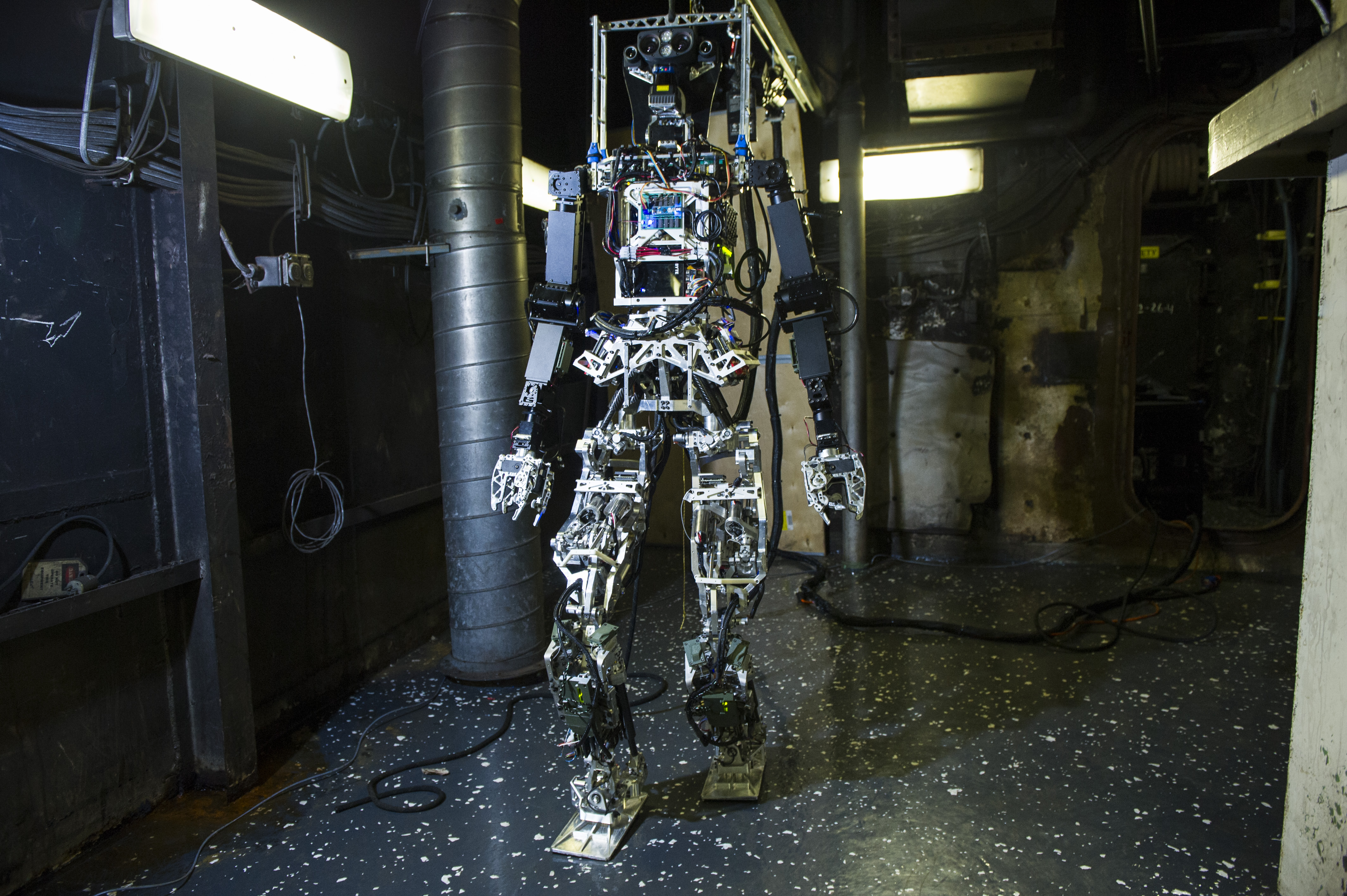 The U.S. Office of Naval Research-sponsored Shipboard Autonomous Firefighting Robot (SAFFiR) undergoes testing aboard the Naval Research Laboratory's ex-USS Shadwell (LSD-15) in Mobile, Alabama (USA). SAFFiR is a bipedal humanoid robot being developed to assist sailors with damage control and inspection operations aboard naval vessels.